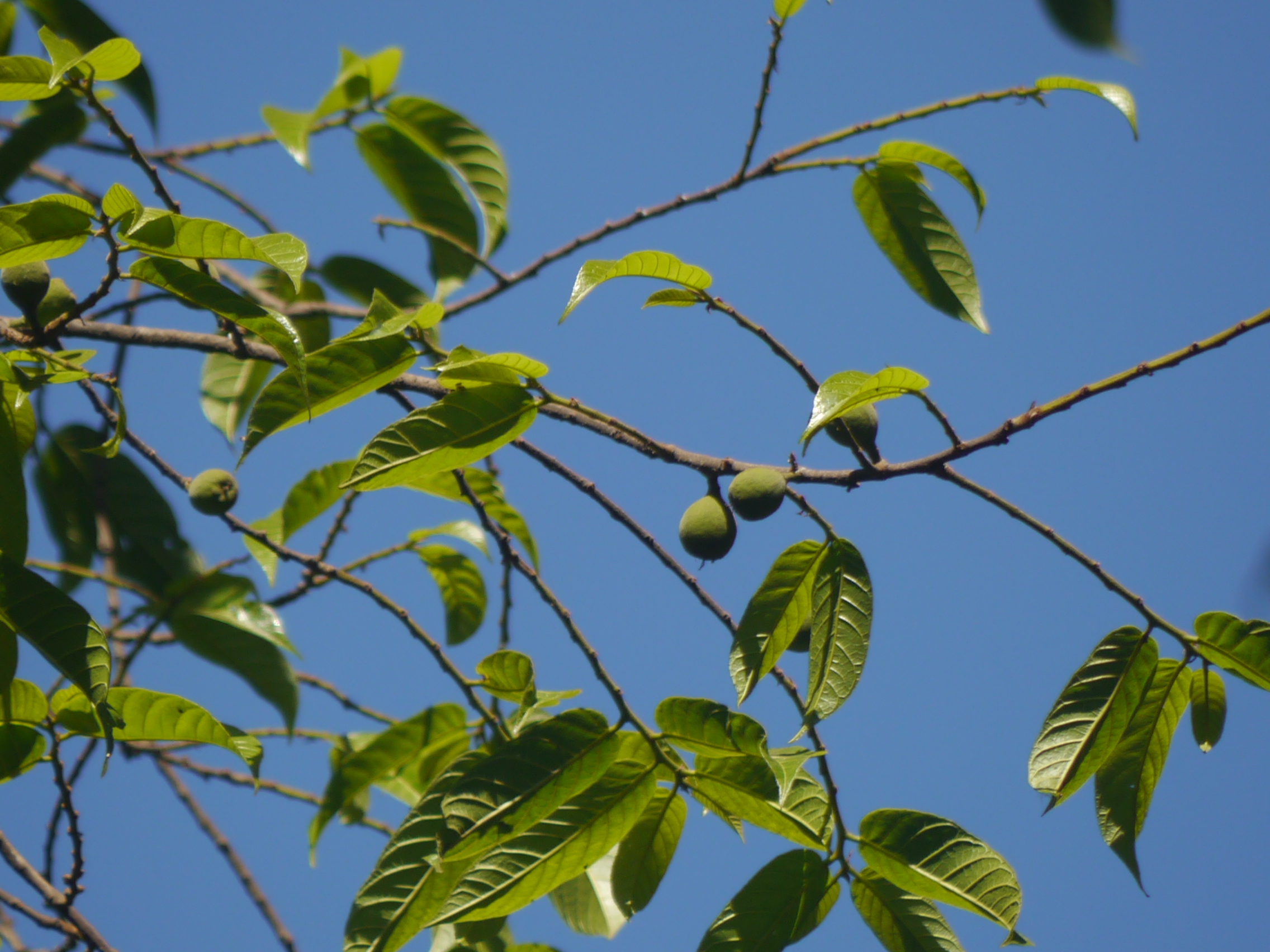 Antiaris toxicaria Lesch.